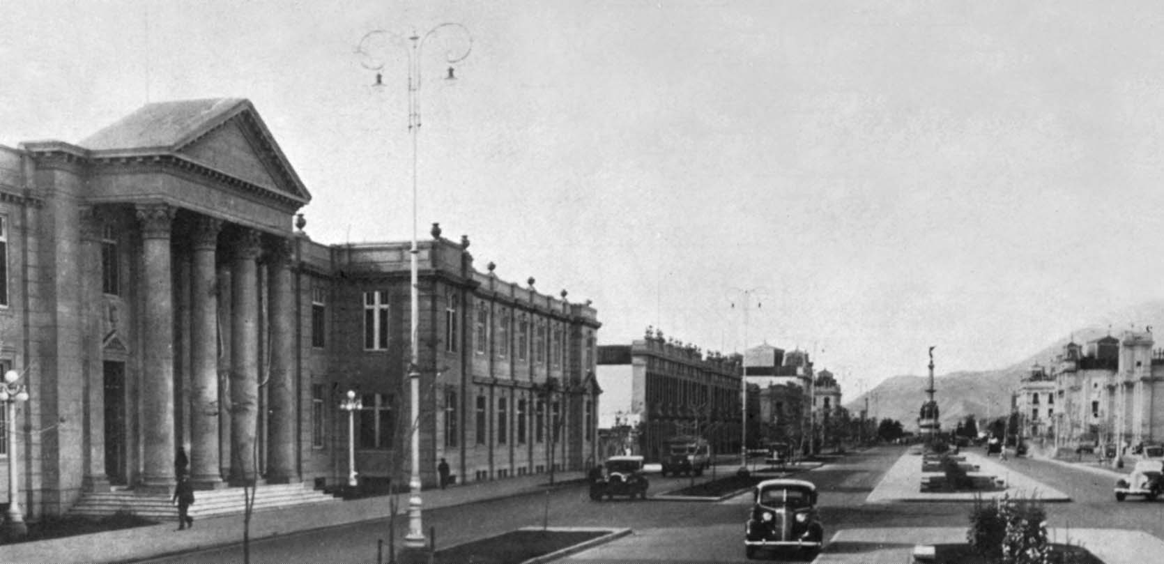 The Loayza Alfonso Ugarte hospital in Lima, Peru